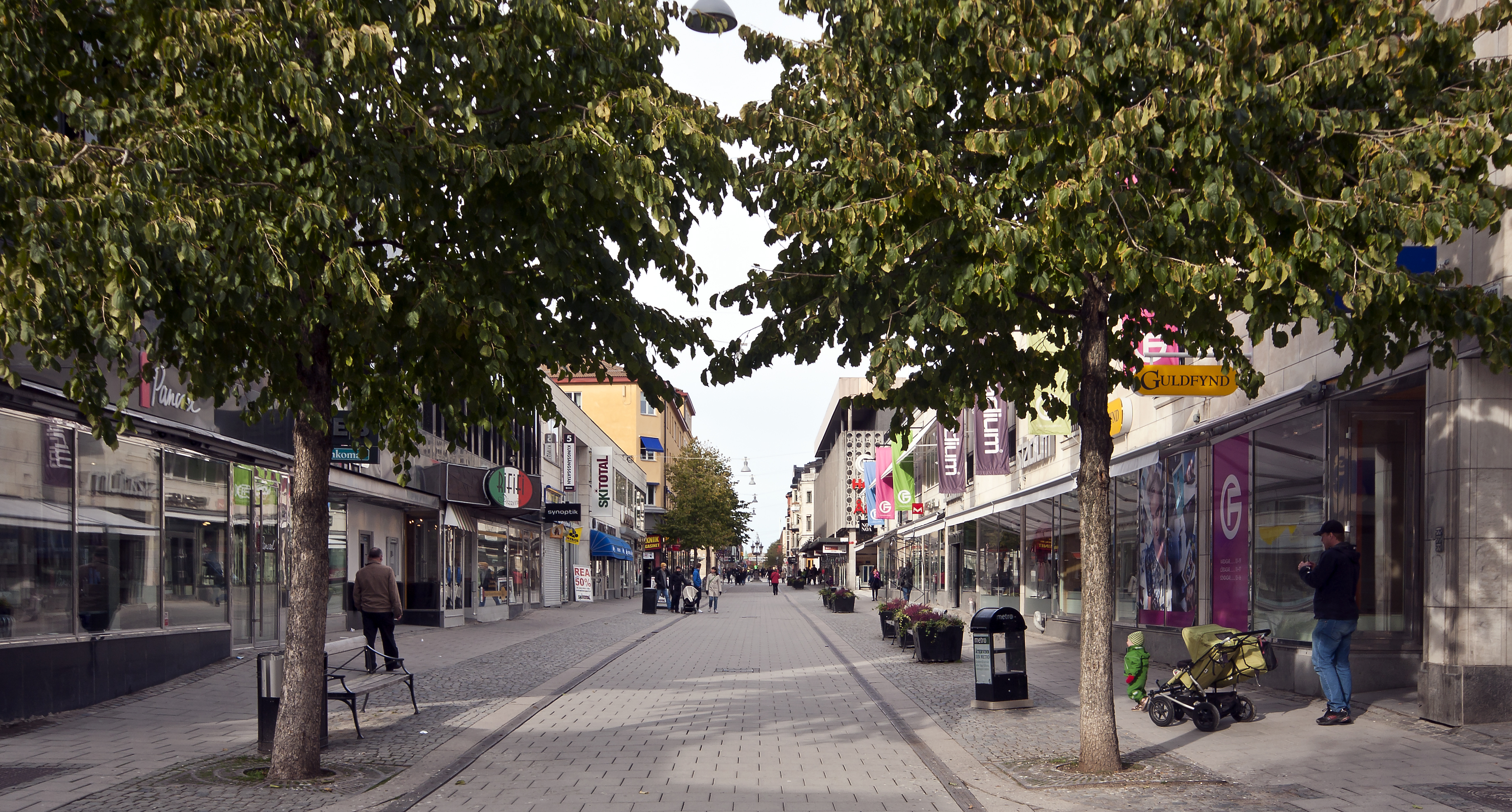 Street Kungsängsgatan in downtown Uppsala, Sweden.